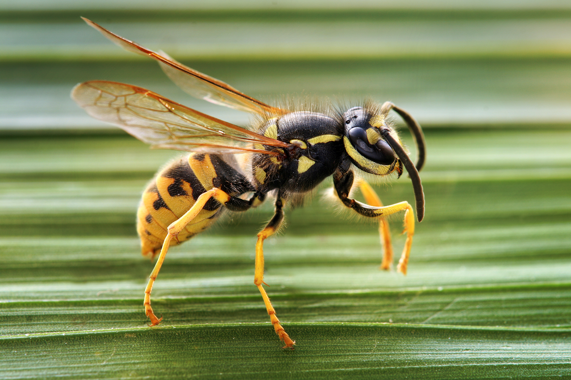 Description: Vespula is a small genus of social wasps, widely distributed in the Northern Hemisphere. Along with members of their sister genus Dolichovespula, they are collectively known by the common name yellowjackets (or yellow-jackets) in North America. Vespula species have a shorter malar space and a more pronounced tendency to nest underground, but are otherwise nearly indistinguishable from Dolichovespula. As shown a Vespula Germana